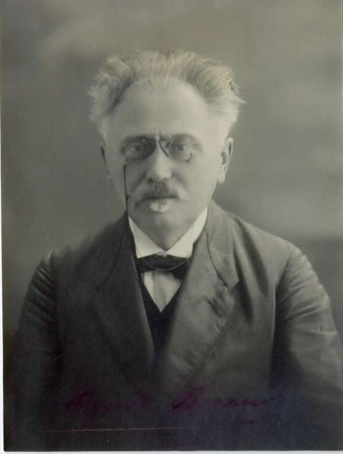 Emerik Beran (1858-1940), Czech-Slovene musician and composer.